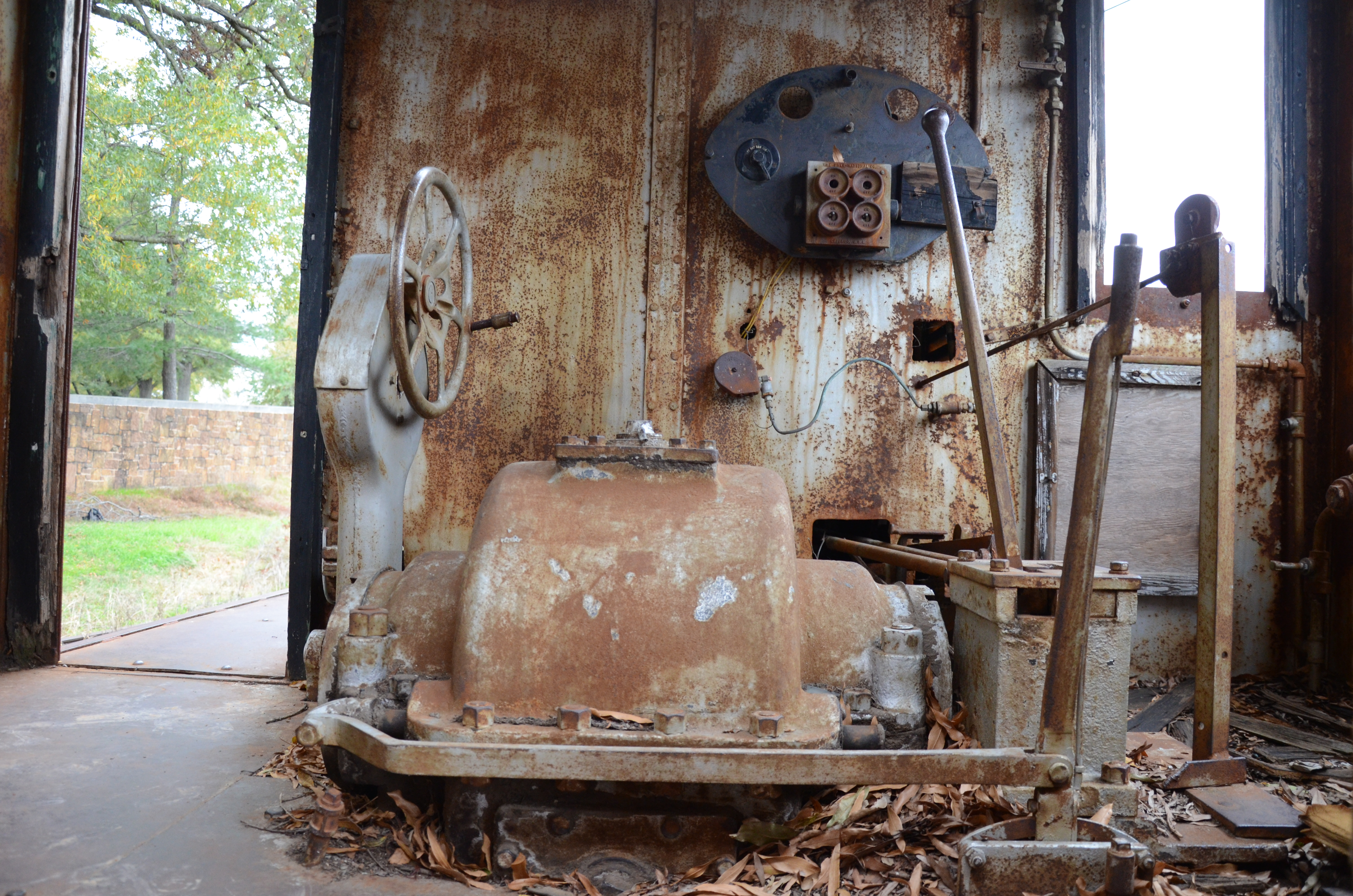 Maumelle Ordnance Works Locomotive